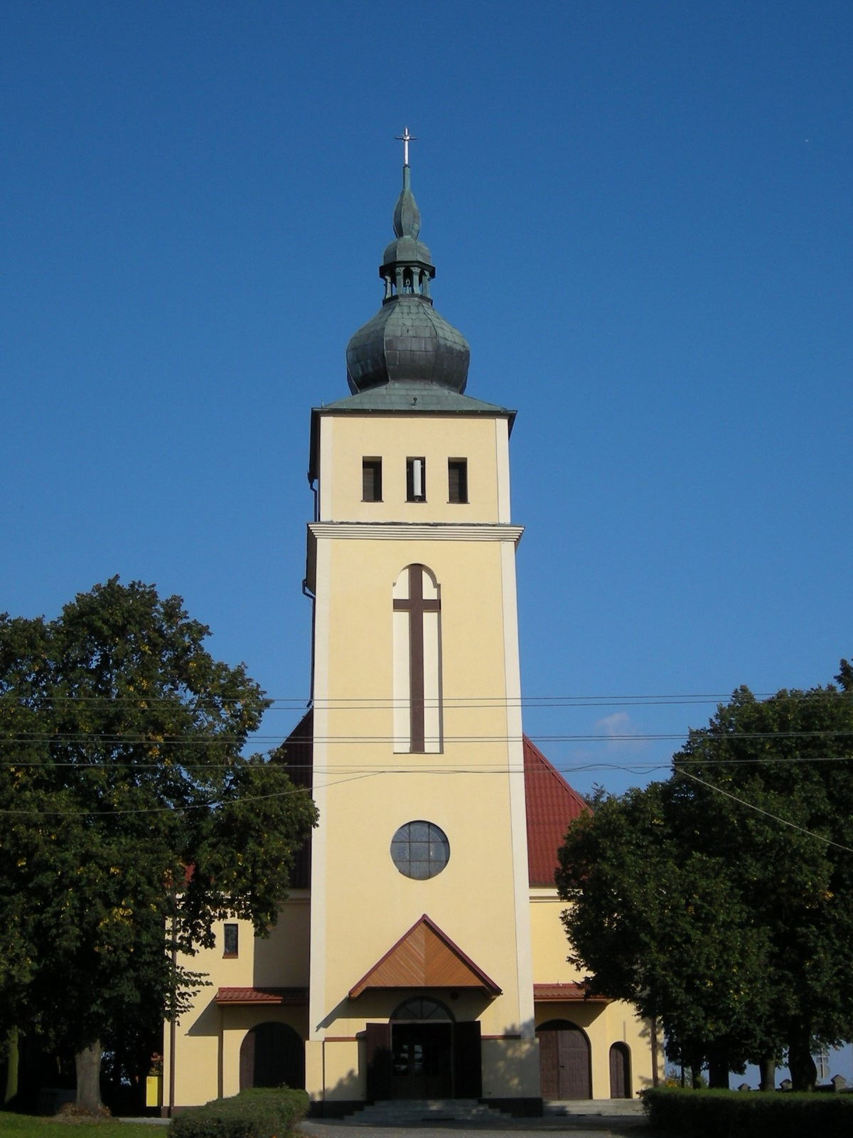 The church in Białośliwie, Poland.